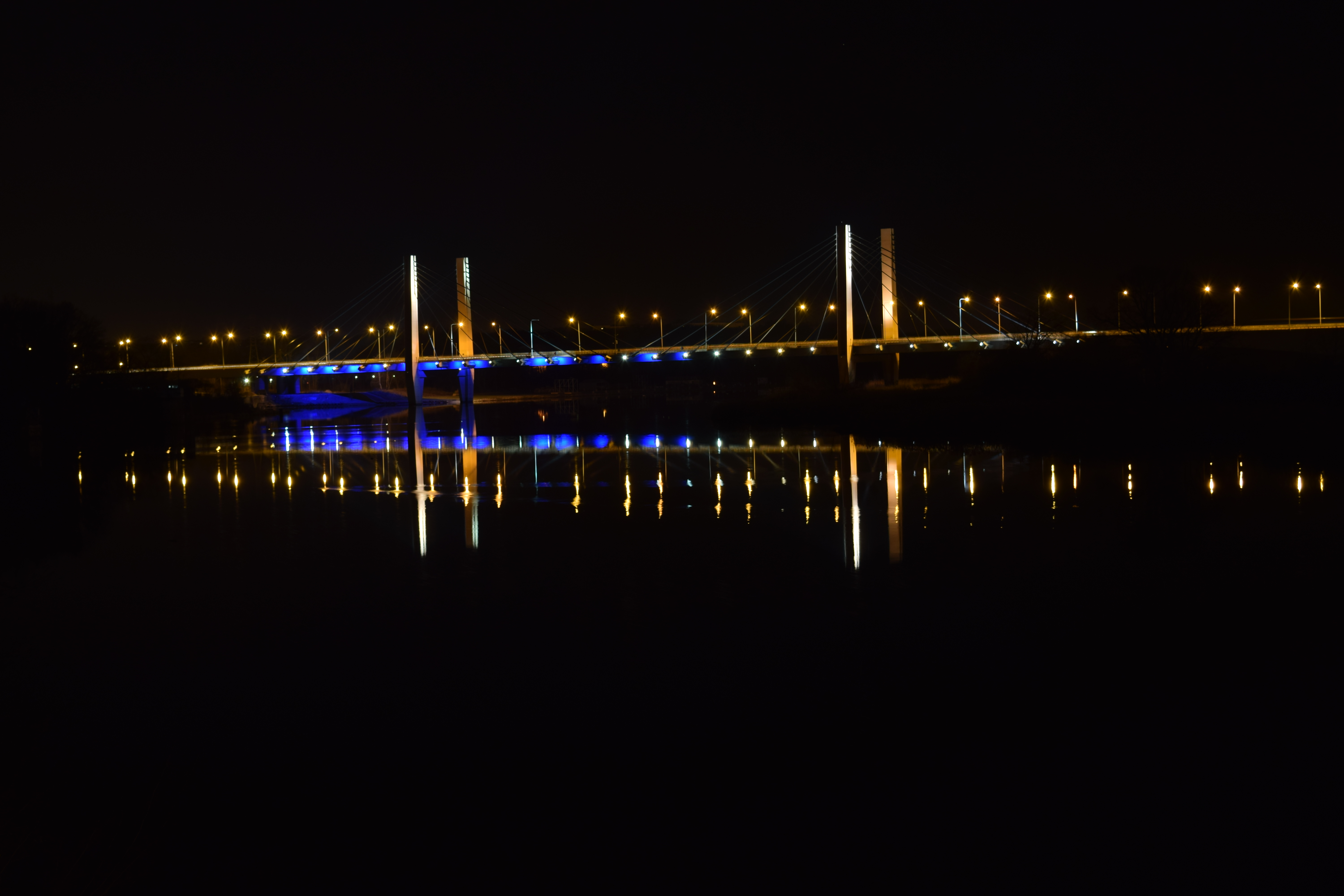 Milenijny Bridge (Most Milenijny)